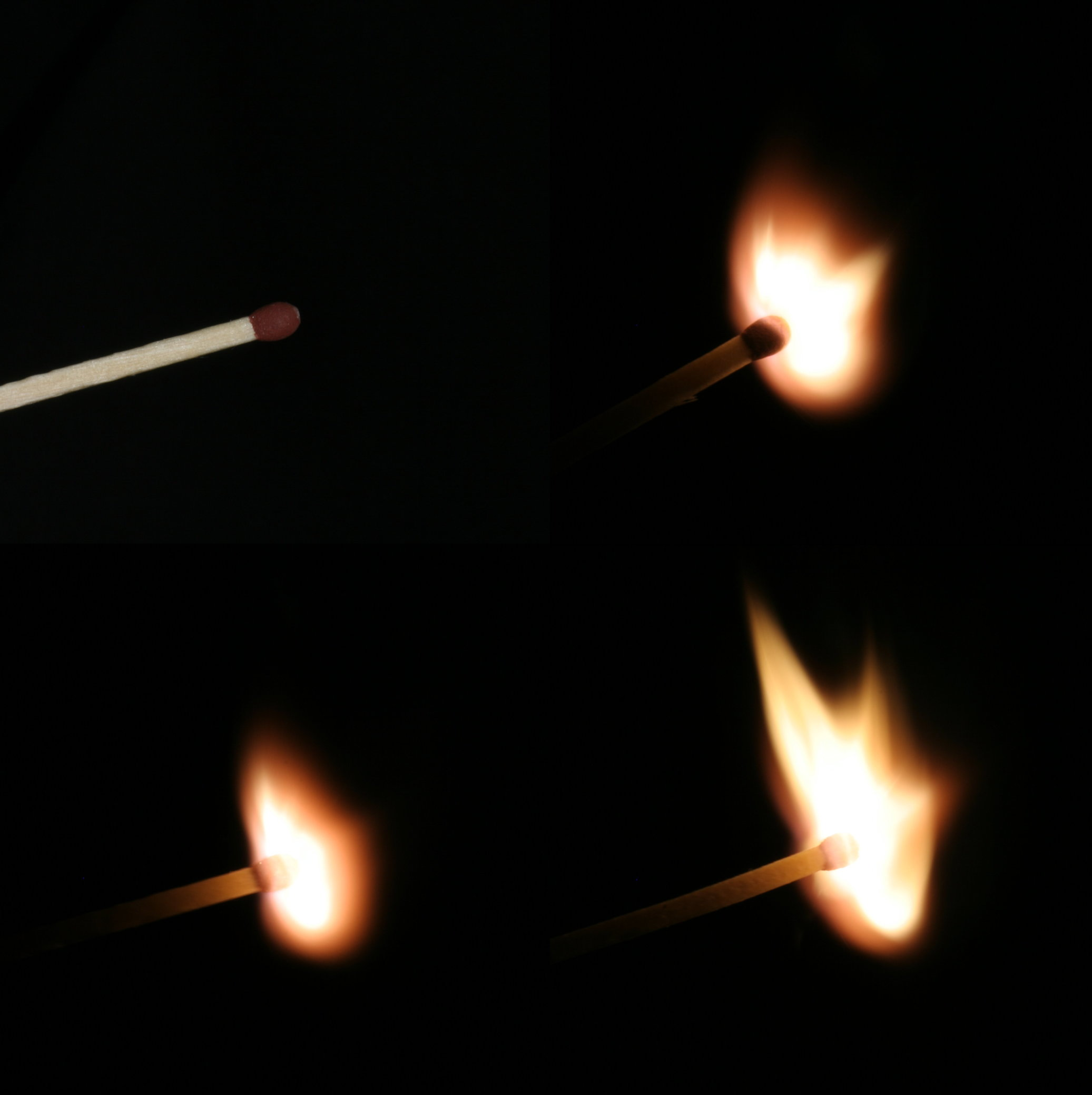 Ignition of a match. Honestly it's the ignition of three matches in different stages.